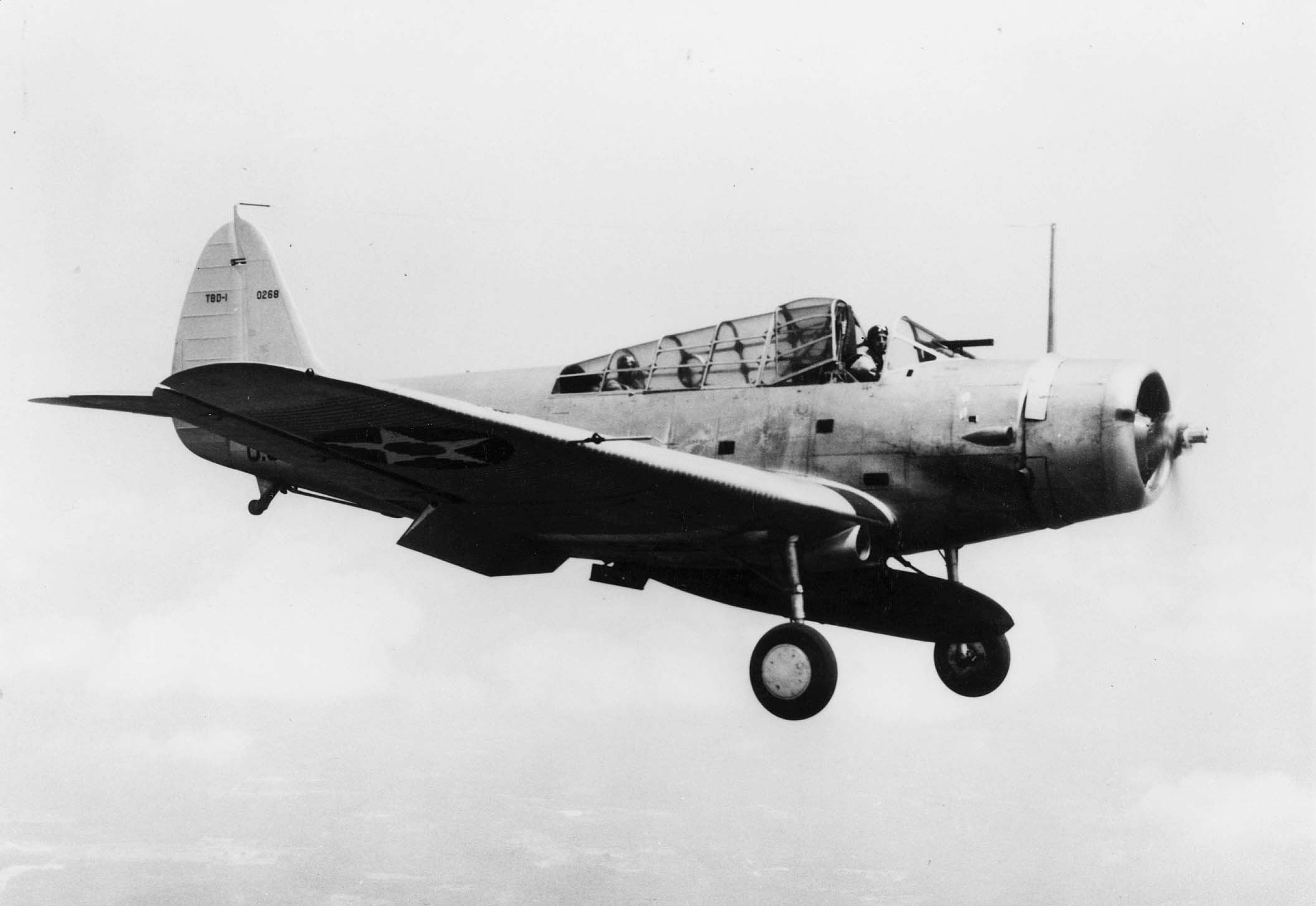 The first production U.S. Navy Douglas TBD-1 Devastator (BuNo 0268) pictured during flight testing at Naval Air Station Anacostia, Washington D.C. (USA), in 1937. Anacostia was the location of the Navy's flight testing during the period in which this photograph was taken.